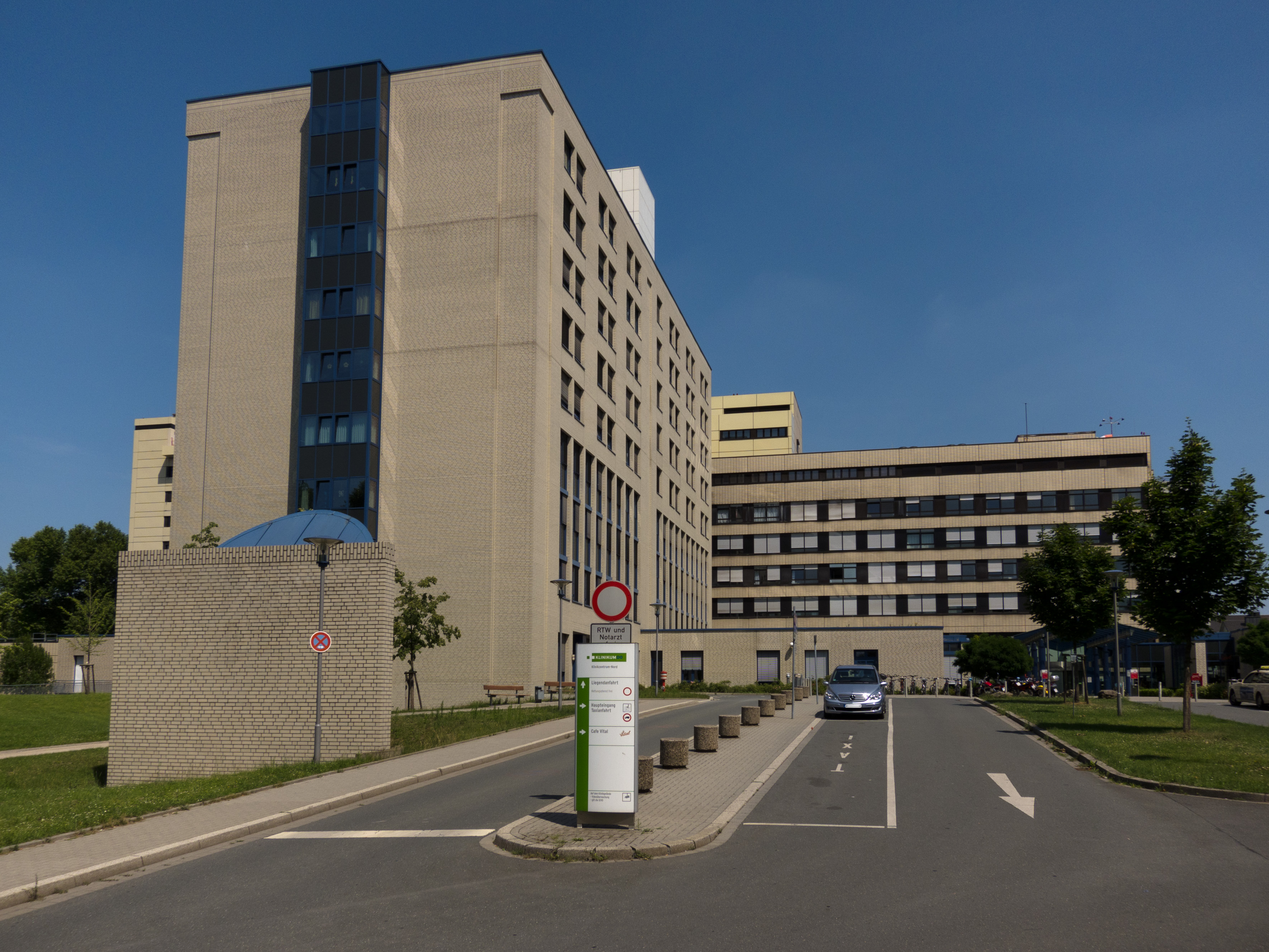 Klinikum Dortmund building of Klinikzentrum Nord